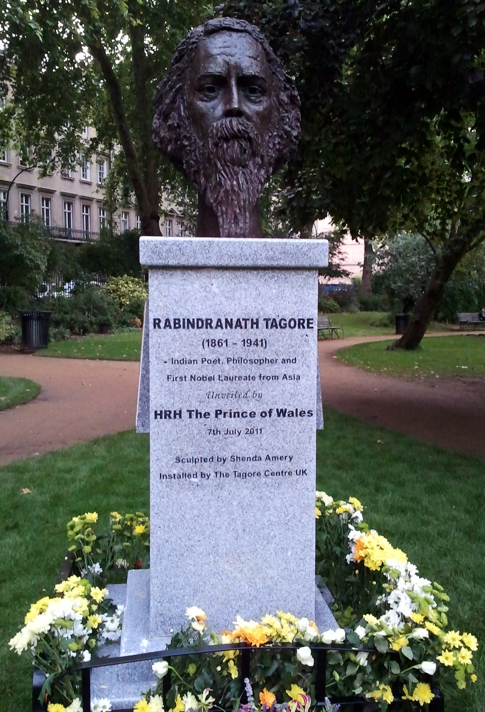 Taken on the day the monument was first unveiled in Gordon Square.